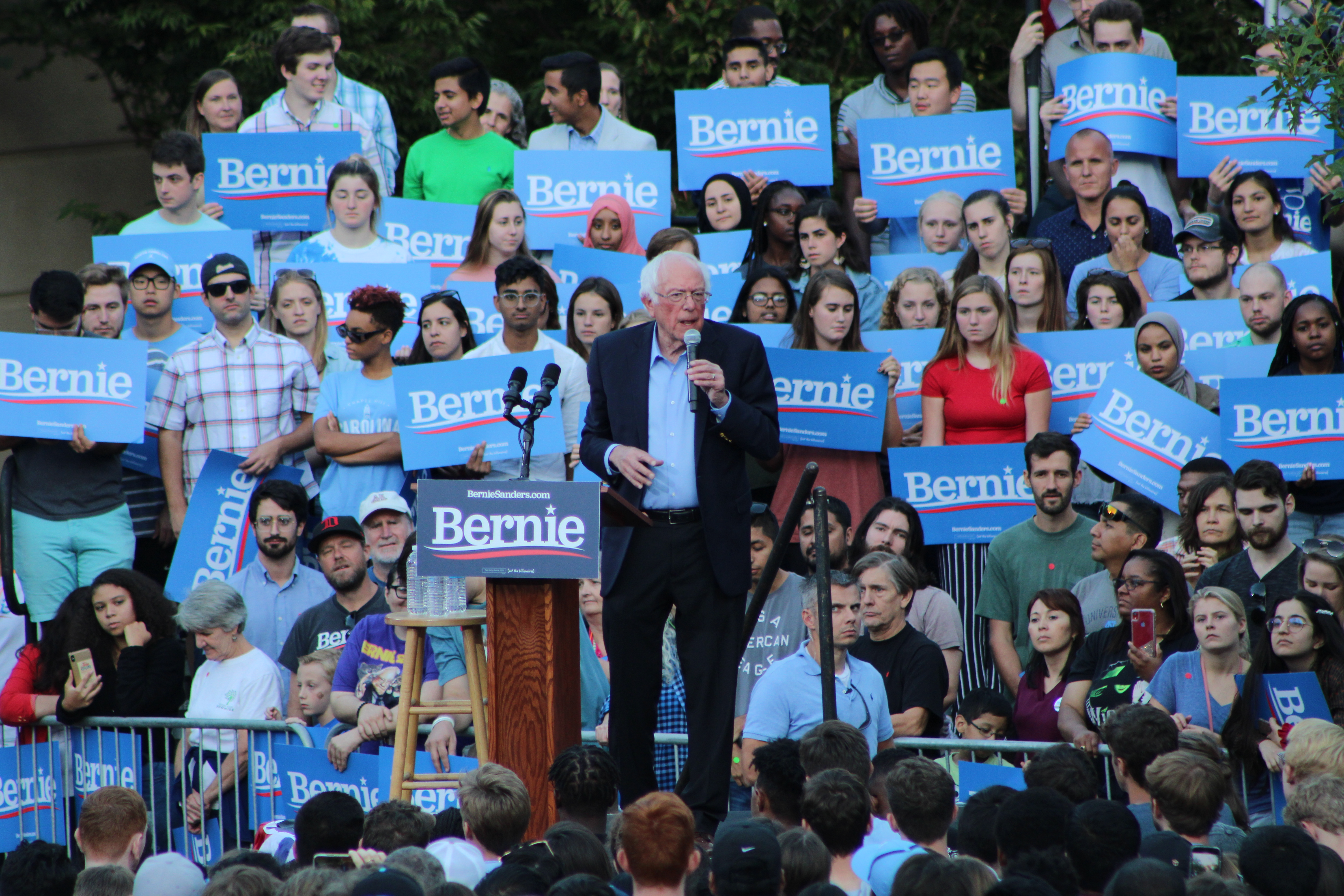 Senator Bernie Sanders' speaks at UNC-Chapel Hill's Bell Tower Amphitheater on September 19, 2019